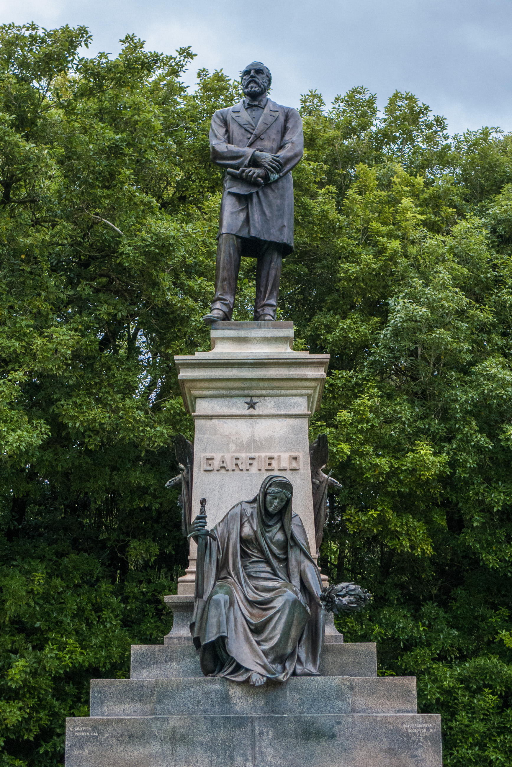 Statue of President Garfield at Golden Gate Park, San Francisco. Sculpted in Munich by San Franciscan Frank Happersberger in 1885.